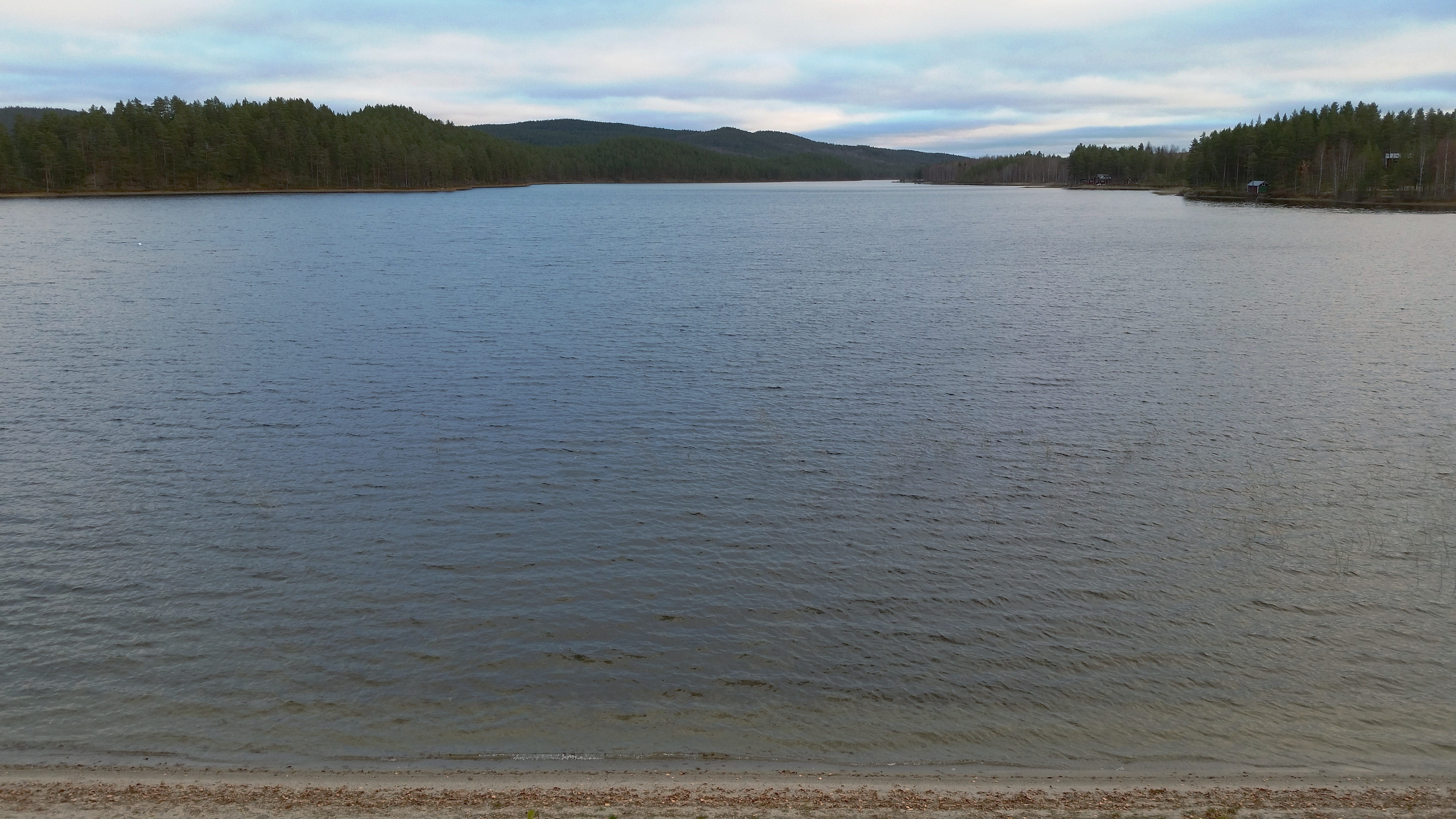 The lake of Djupsund is part of Åmträsket to the west of the esker Sundkammen. The Sundkammen can be glimpsed in the upper left of the image.